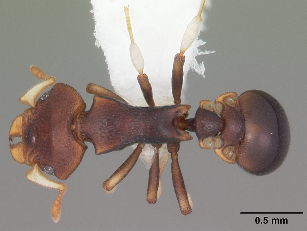 Dorsal view of ant Colobostruma foliacea specimen psw10121-13.